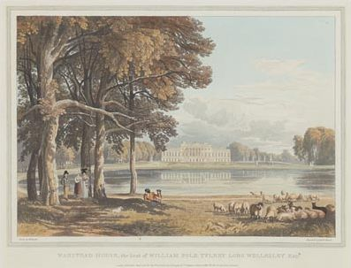 Wanstead House the seat of William Pole Tylney Long Wellesley Esq. Pastoral scene before Wanstead House, drawn by William Havell, engraved by Robert Havell. Colour aquatint, published 1/8/1815. Government Art Collection, no.4912. ( See also File:WansteadHouse.jpg "File:WansteadHouse.jpg" for another copy, with stronger colouring.